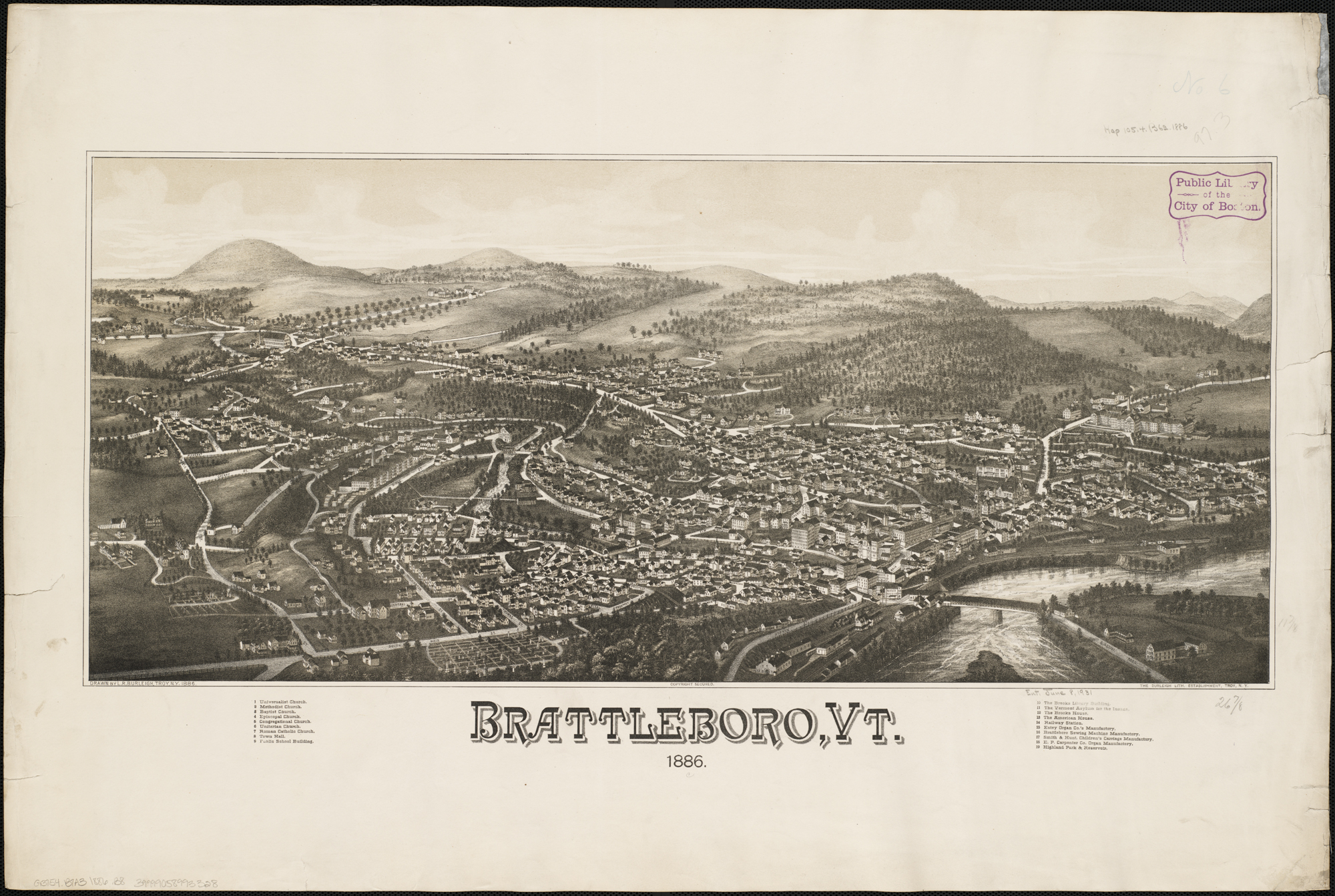 Zoom into this map at . Author: Burleigh, L. R. Publisher: L.R. Burleigh Date: 1886 Location: Brattleboro (Vt.) Scale: Not drawn to scale. Call Number: G3754.B7A3 1886.B8